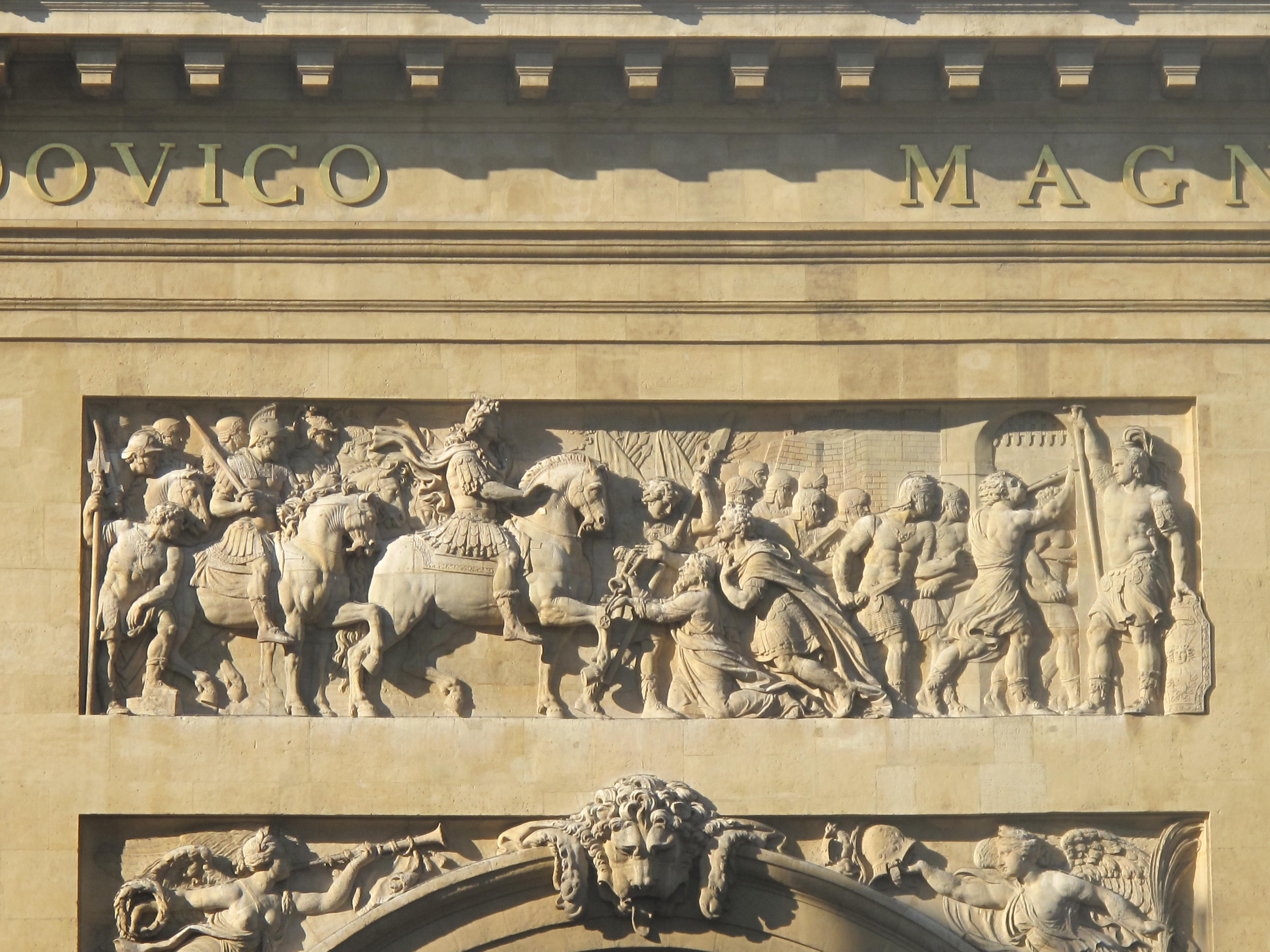 Relief on the north face of the porte Saint-Denis, Paris : capture of the town of Maastricht